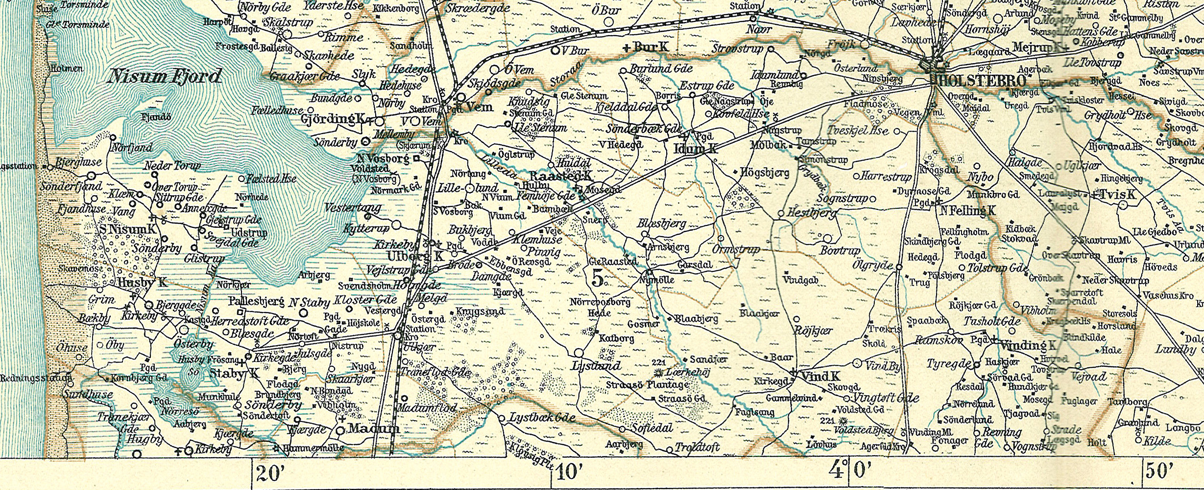 Map of Ulfborg Herred in the northern part of Ringkøbing County in Denmark